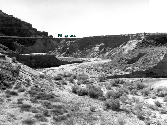 Kane County. Eroded alluvial fill 60 feet thick In Kanab Creek. In 1884 stream ran at top of terrace. 1939. Digital File:ghe00908 Edited version of USGS image found at [1] using keywords "fill" and "terrace."